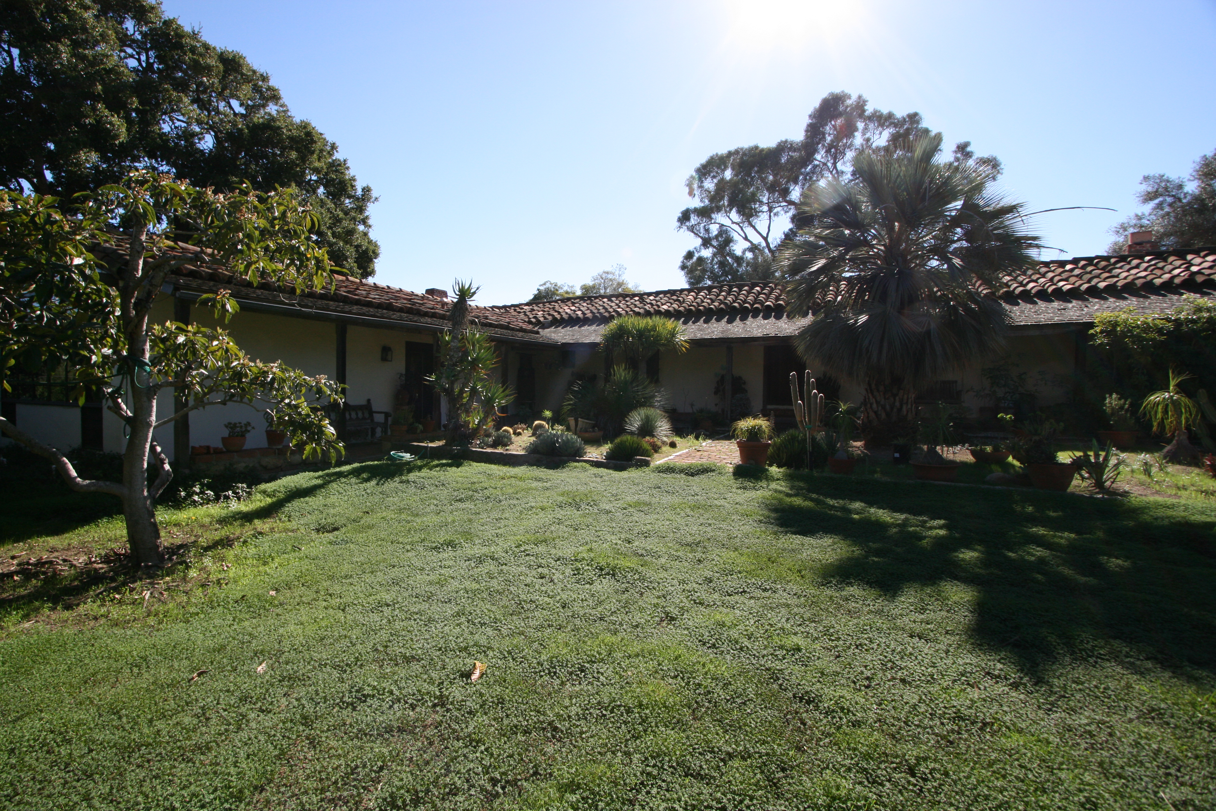 The Rafael Gonzales House, Santa Barbara, CA. View of the front yard.